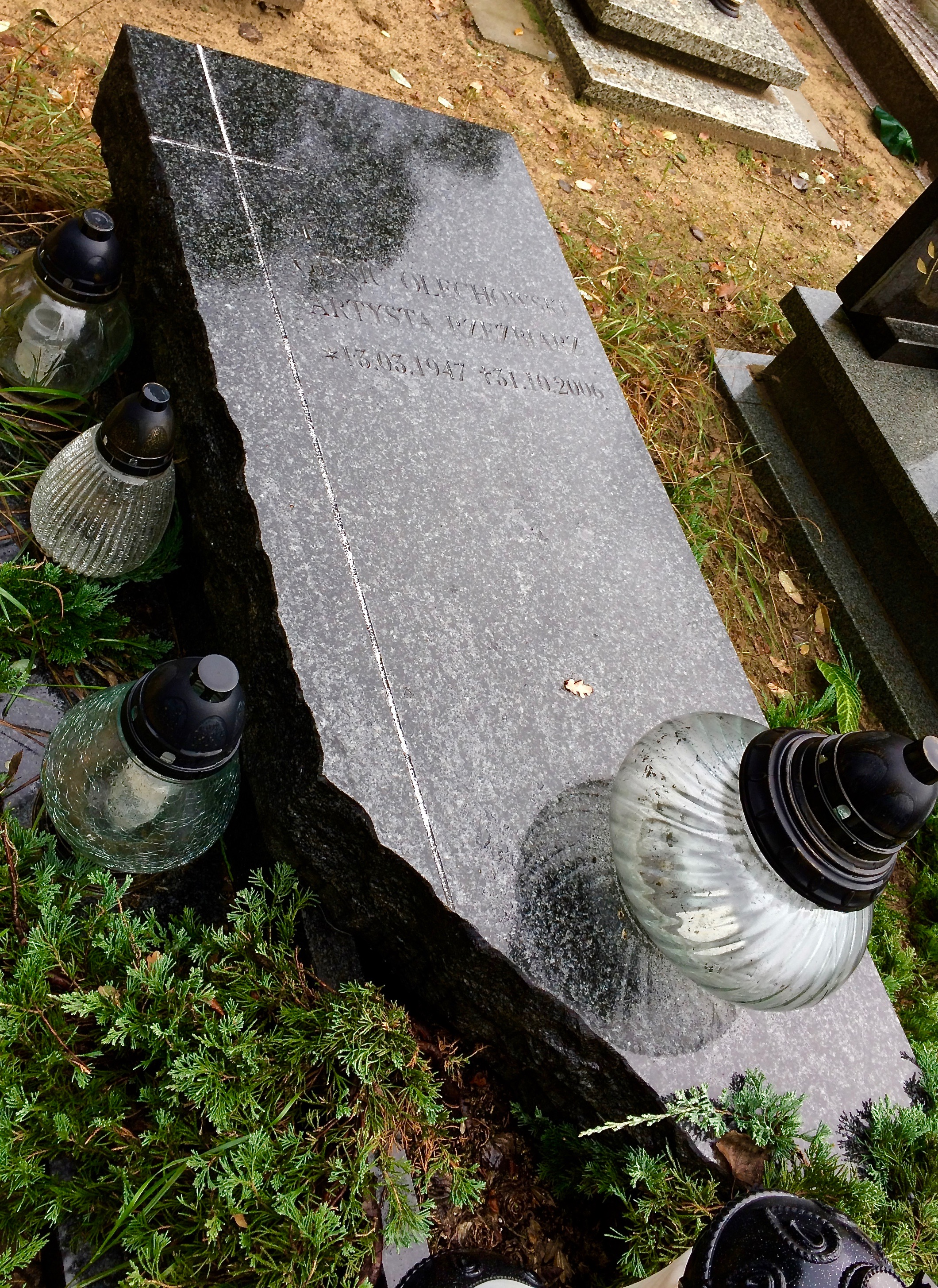 Grave of Eugeniusz Olechowski